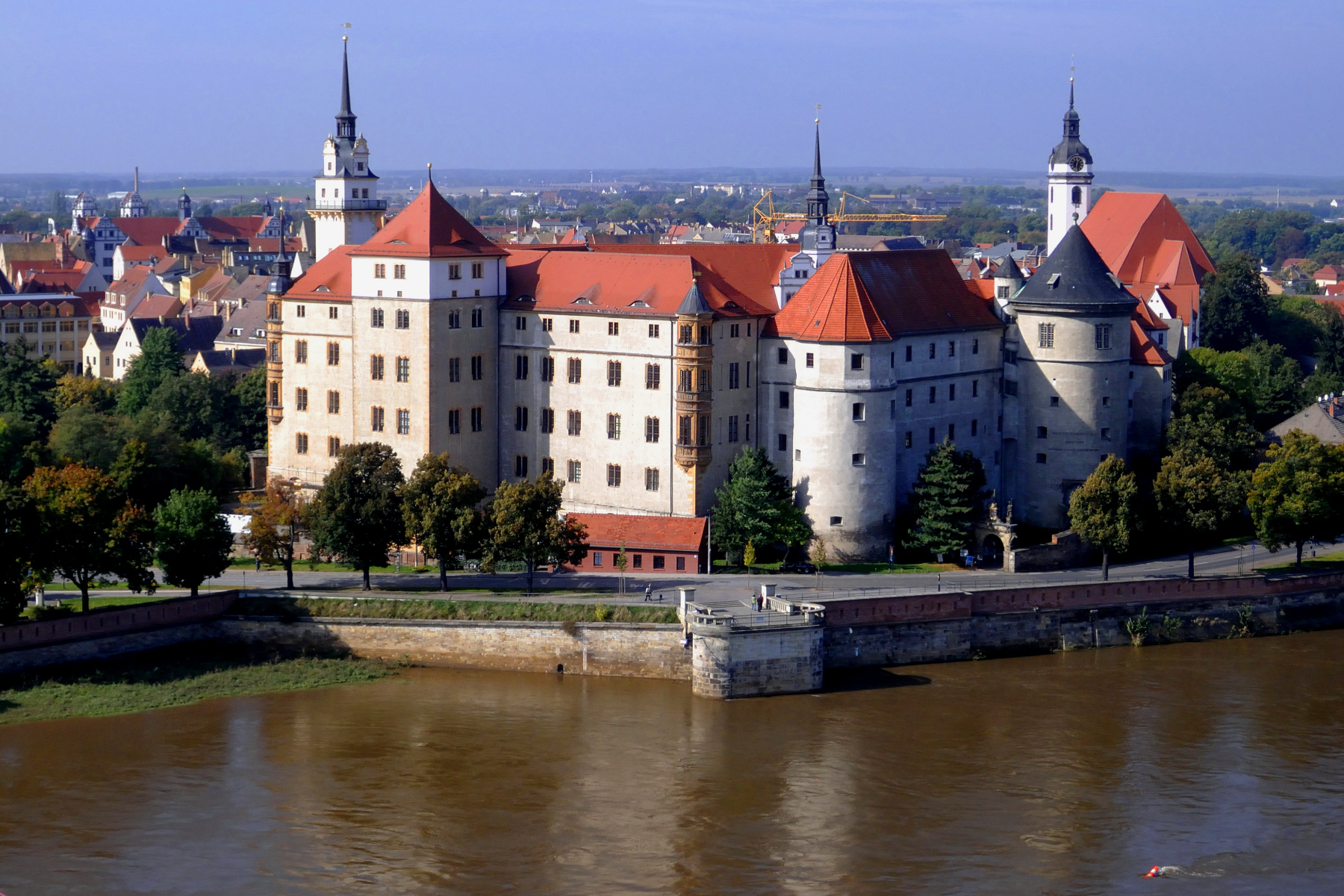 KAP (Kite Aerial Photography)